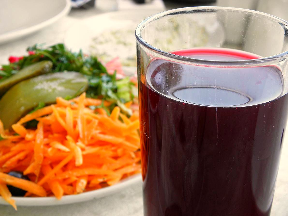 Shalgam